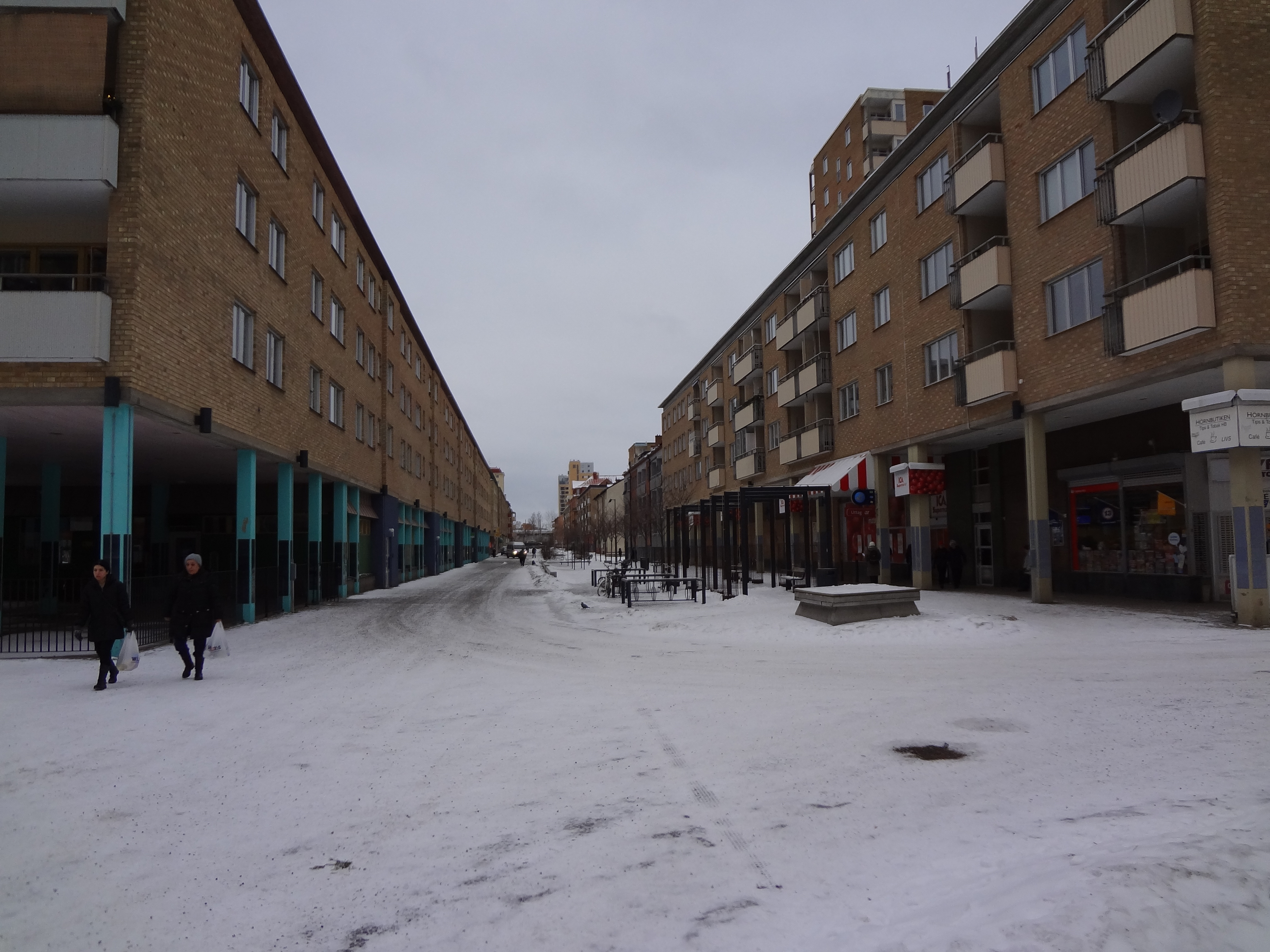 "Nyforsgatan" in Nyfors, a part of Eskilstuna, Sweden.